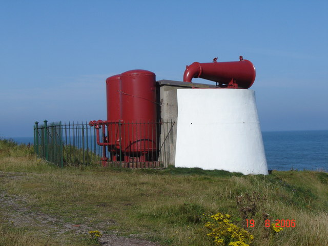 The Foghorn at Girdleness. The picture of the disused foghorn was taken after it was given a new coat of paint after years of neglect.